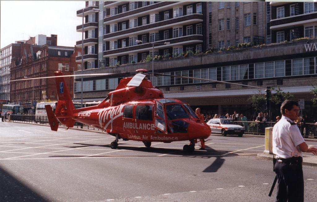 The old London Air Ambulance pictured on Finchley Road in 1998